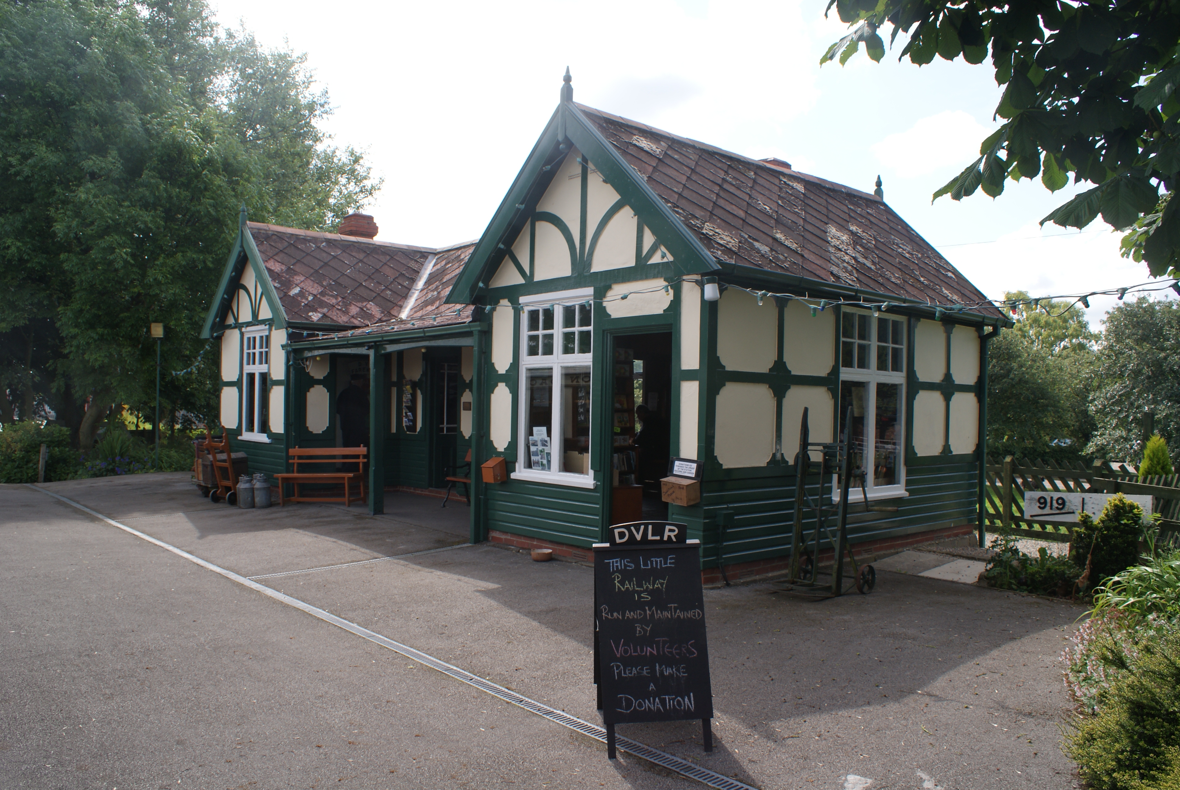 Derwent Valley Light Railway station, formerly at Wheldrake, now at Murton near York, England